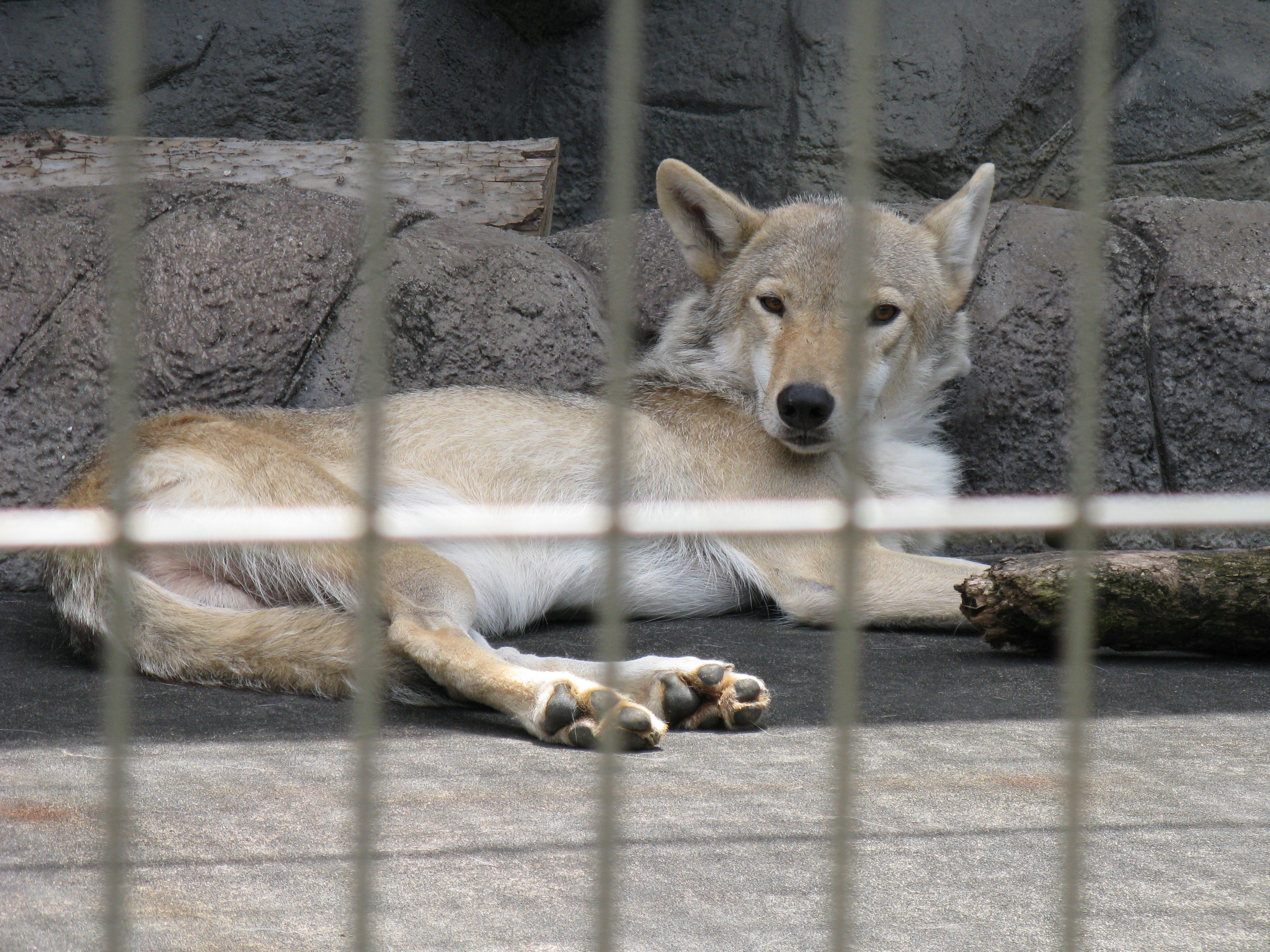 Scientific name Canis lupus chanco